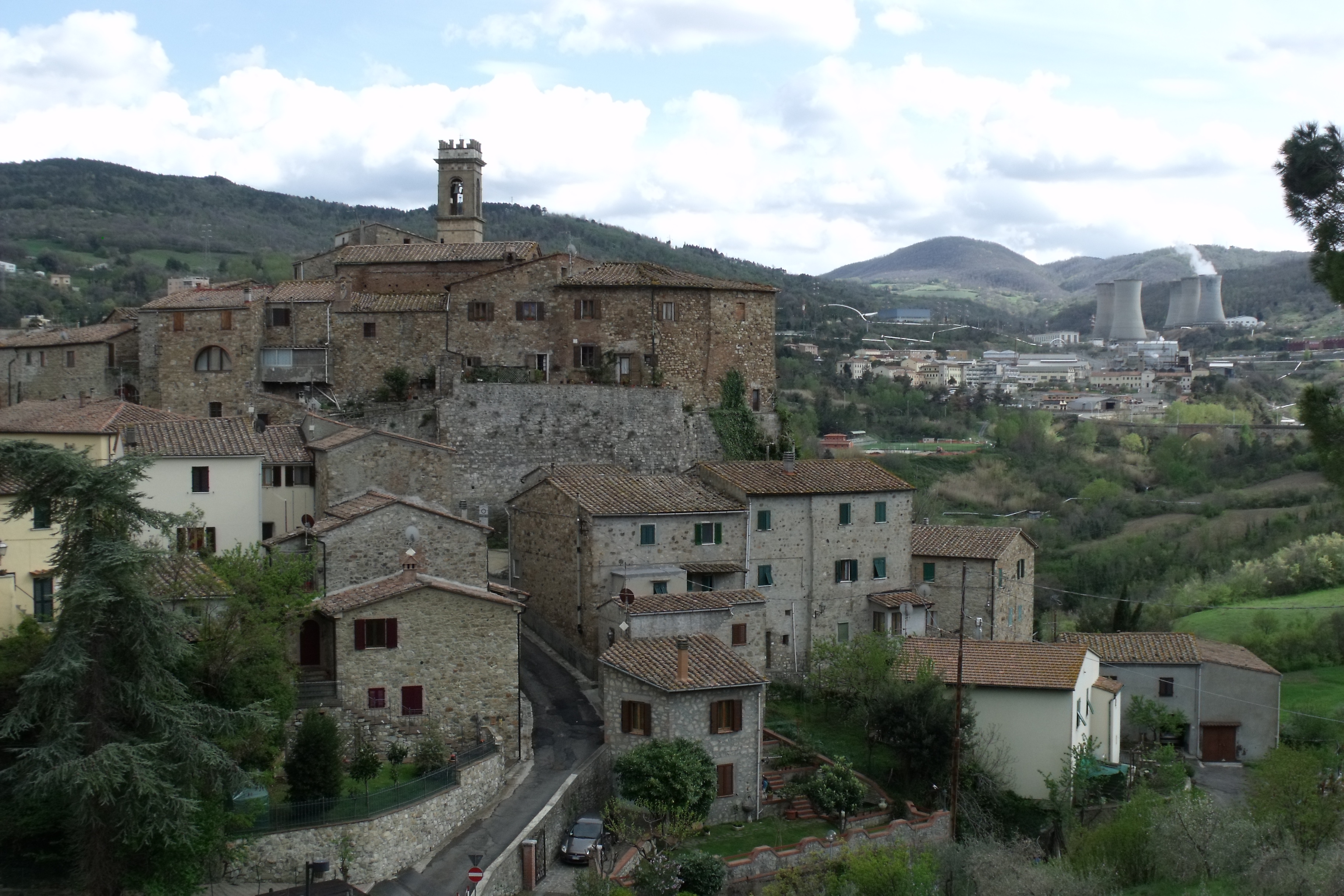 Montecerboli (left side) and Larderello (right side), hamlets of Pomarance, Province of Pisa, Tuscany, Italy